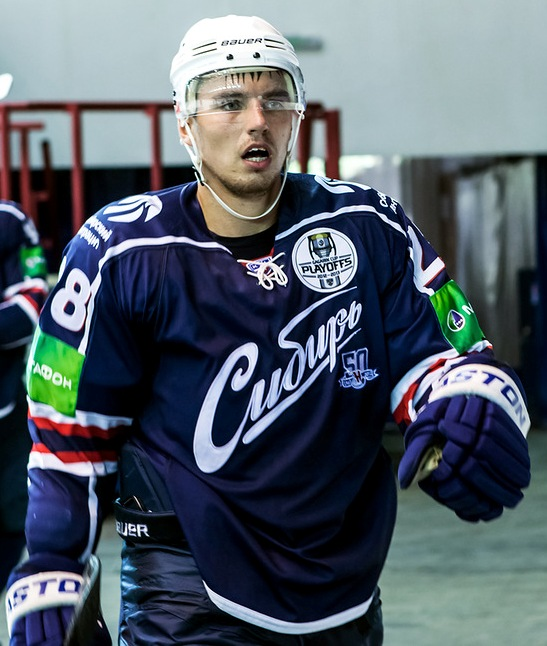 HC Sibir Novosibirsk defenceman Igor Ozhiganov after his team ice practice on July 13, 2013